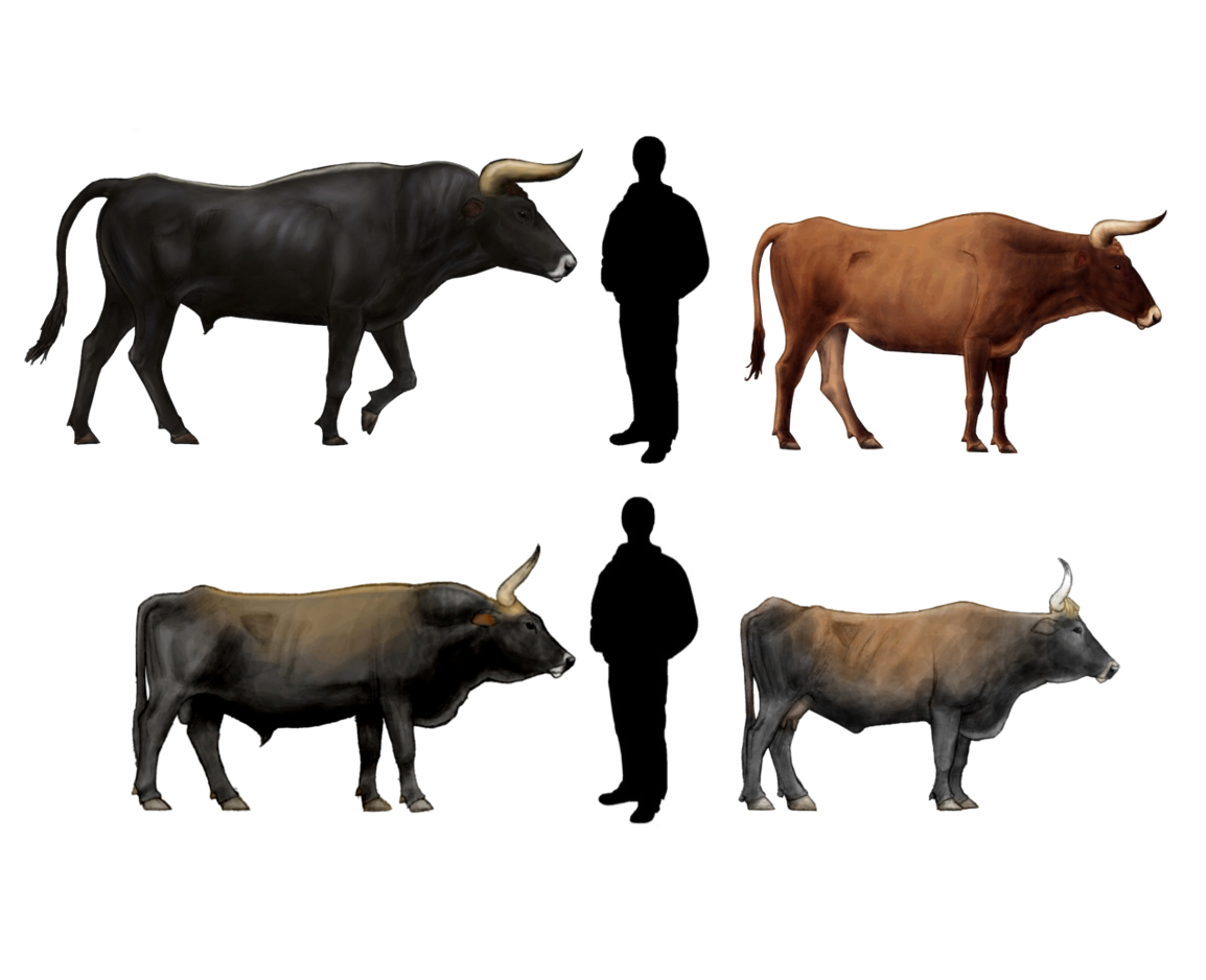 Comparison between the extinct aurochs and average heck cattle.